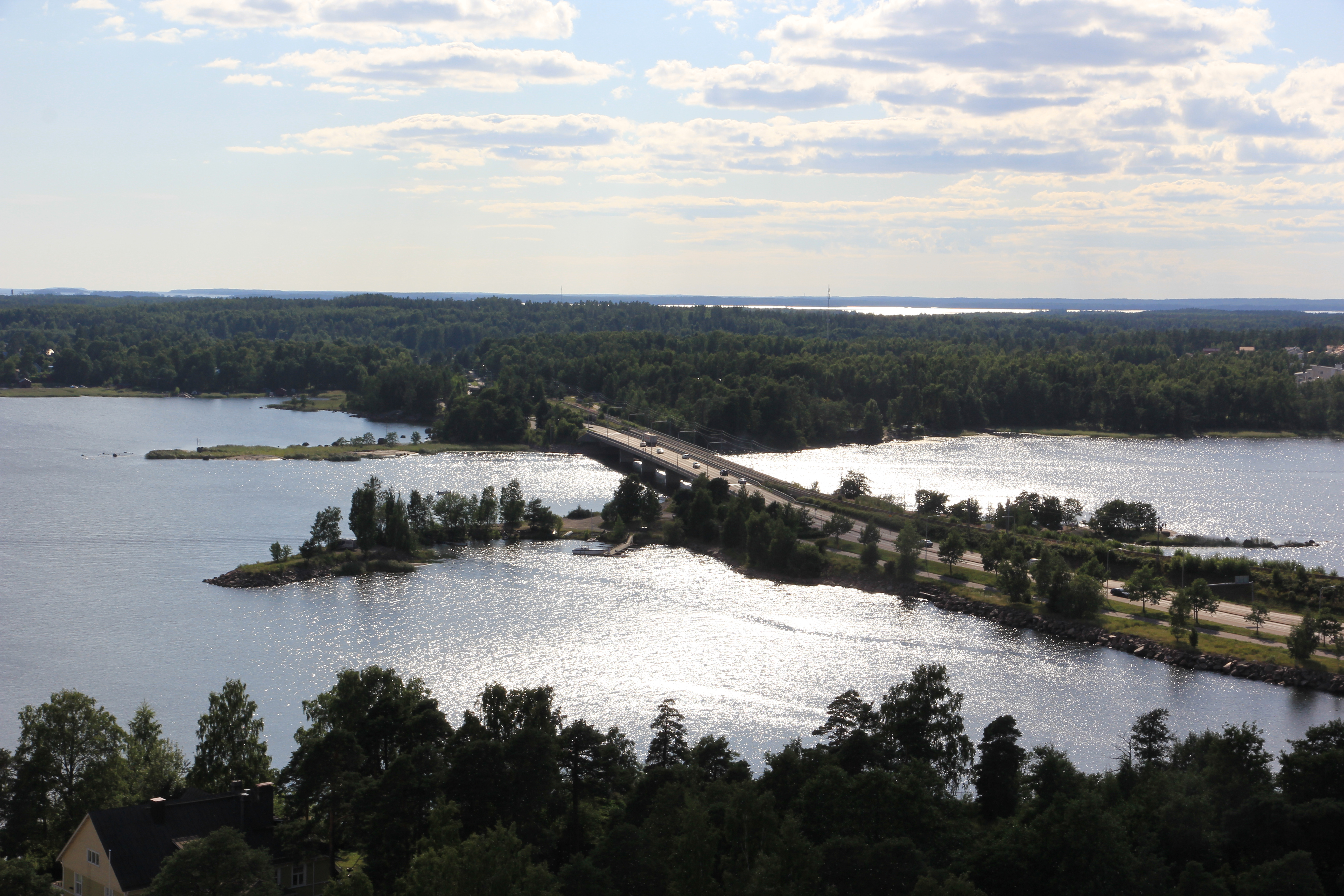 Norssalmi bridge in Kotka photographed from Haukkavuori observation tower.